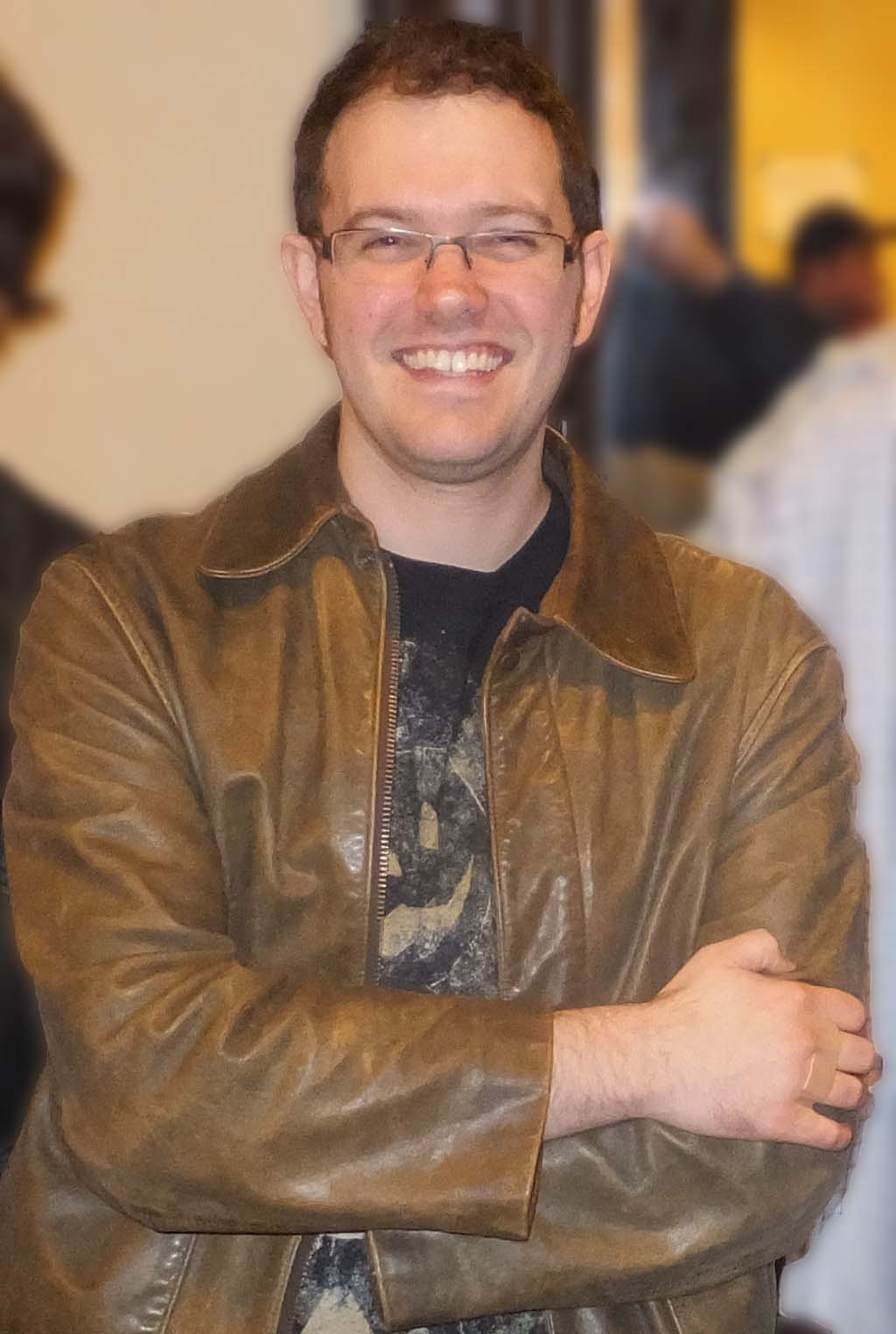 Cropped image of James Rolfe, AVGN ORIGINAL File:Rolfe-expo-2013.jpg